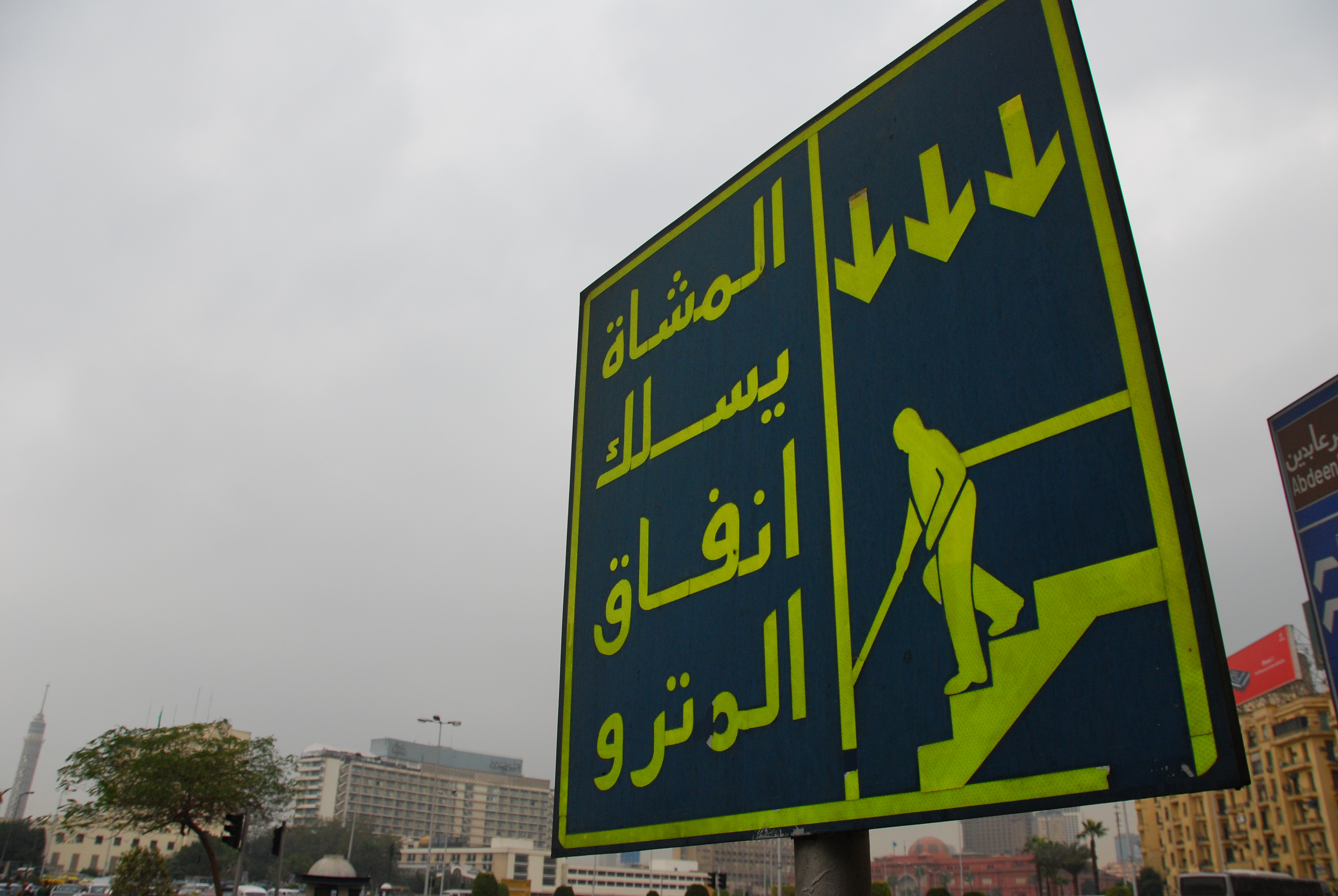 sign instructing pedestrians to use the underground walkways when crossing midan al-Tahrir in downtown Cairo